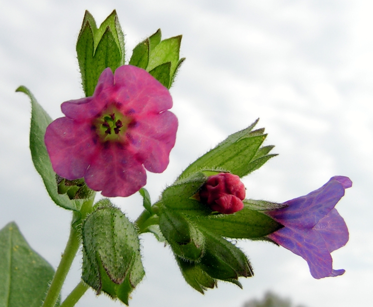 Pulmonaria obscura (family Boraginaceae). Moscow region, Russia.